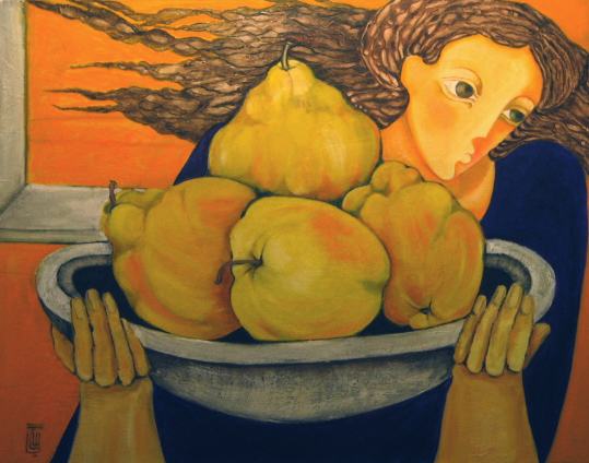 This work is free and may be used by anyone for any purpose. If you wish to use this content, you do not need to request permission as long as you follow any licensing requirements mentioned on this page.